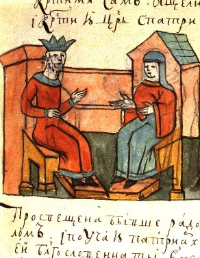 Radzivill chronicle